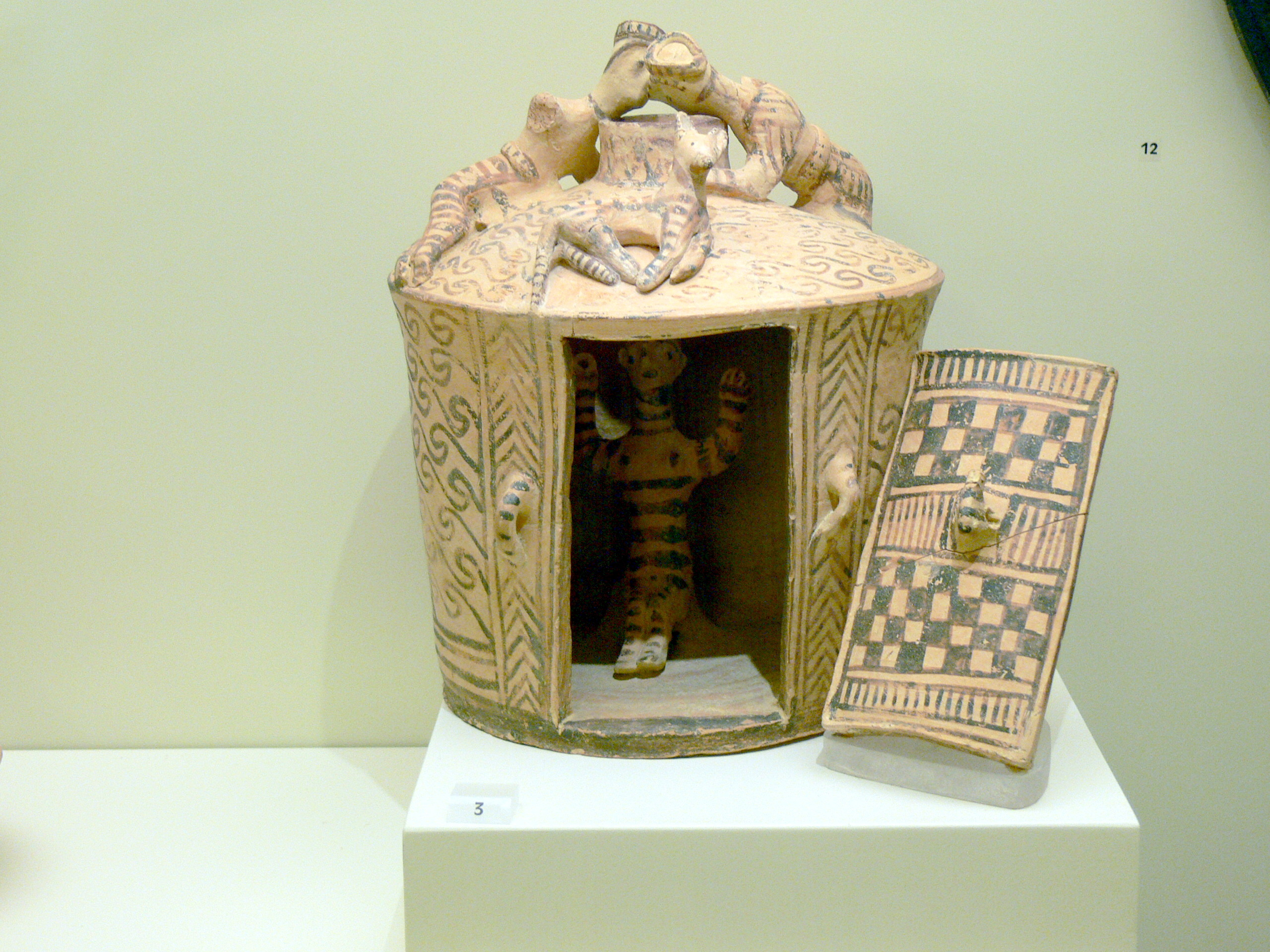 Archaeological Museum in Herakleion. Clay modell of a minoan round temple. Two men are sitting on the roof looking through an opening at a statue of a goddess.